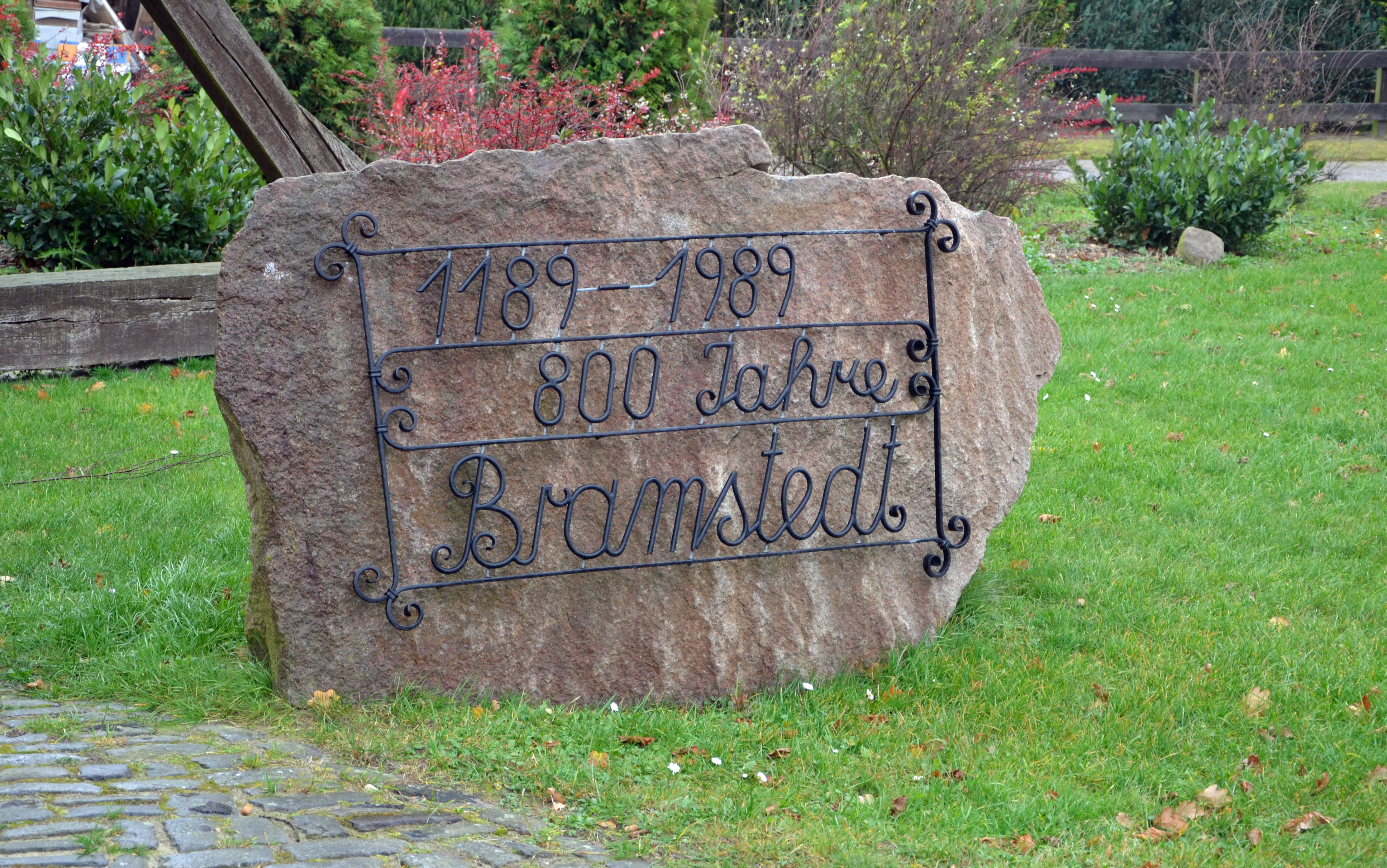 800 years Bramstedt